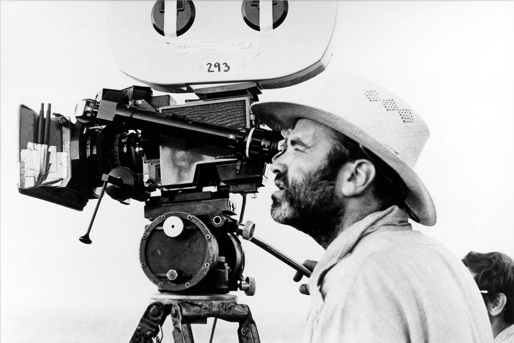 Terrence Malick shooting the film Days of Heaven (1978).